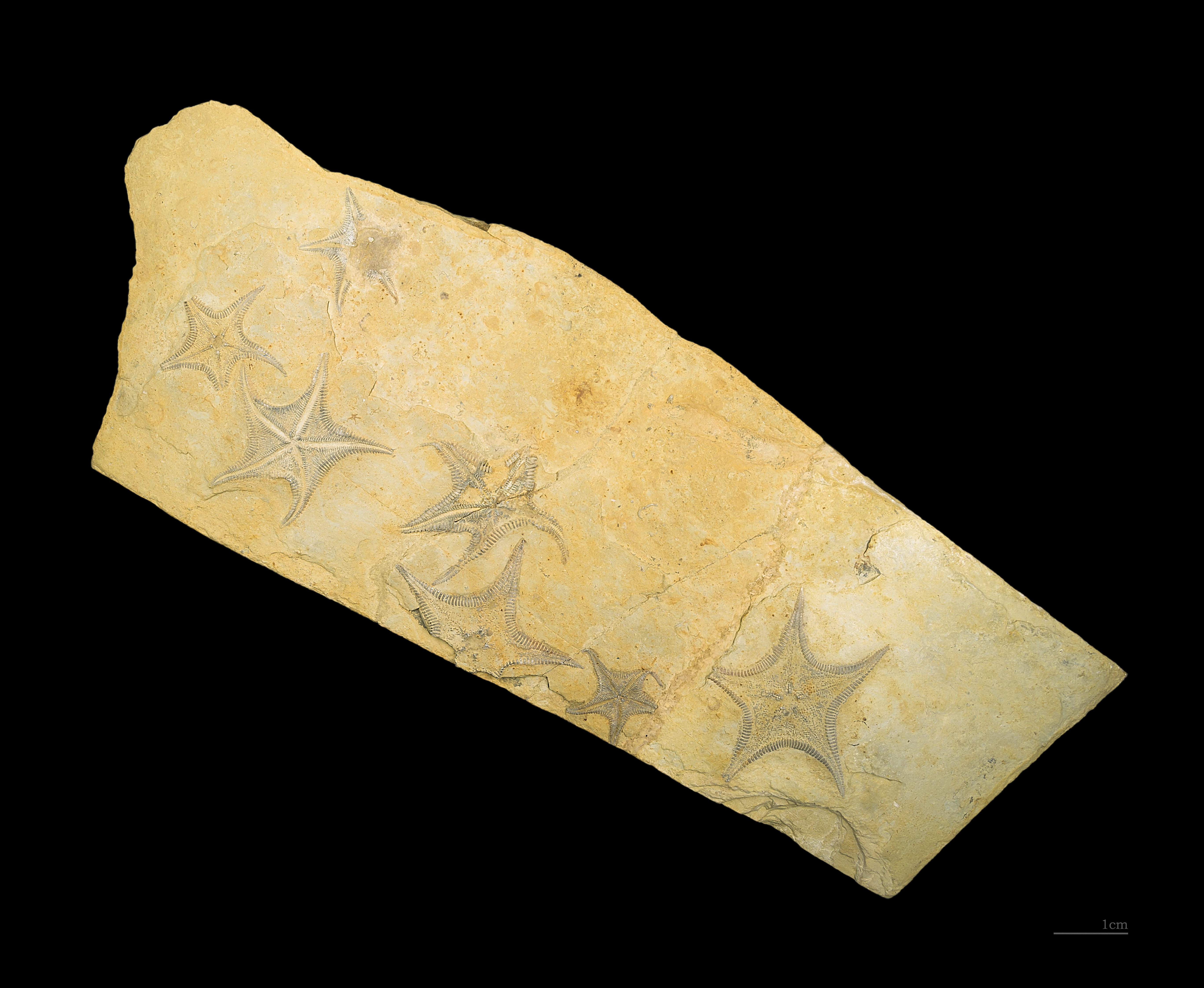 Betelgeusia orientalis. Barremian 130.0 ± 1.5 Ma (million years ago) and 125.0 ± 1.0 Ma. Holotype.